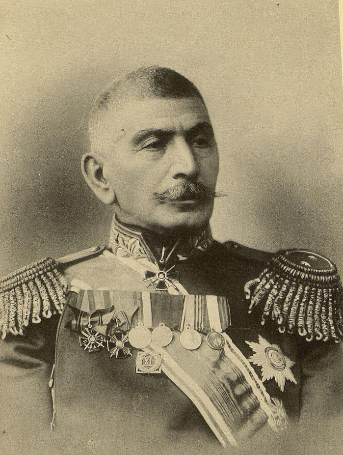 General Alexander Buchkiev